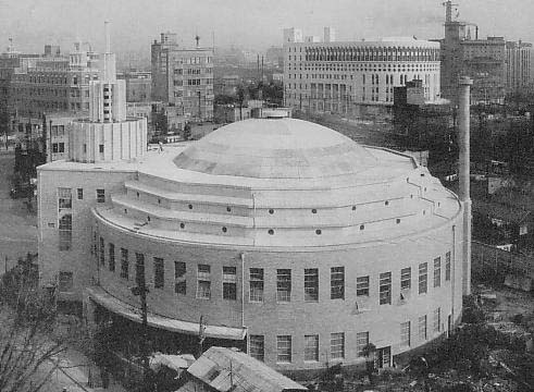 Hibiya Cinema Theater in Taisho and Pre-war Showa eras